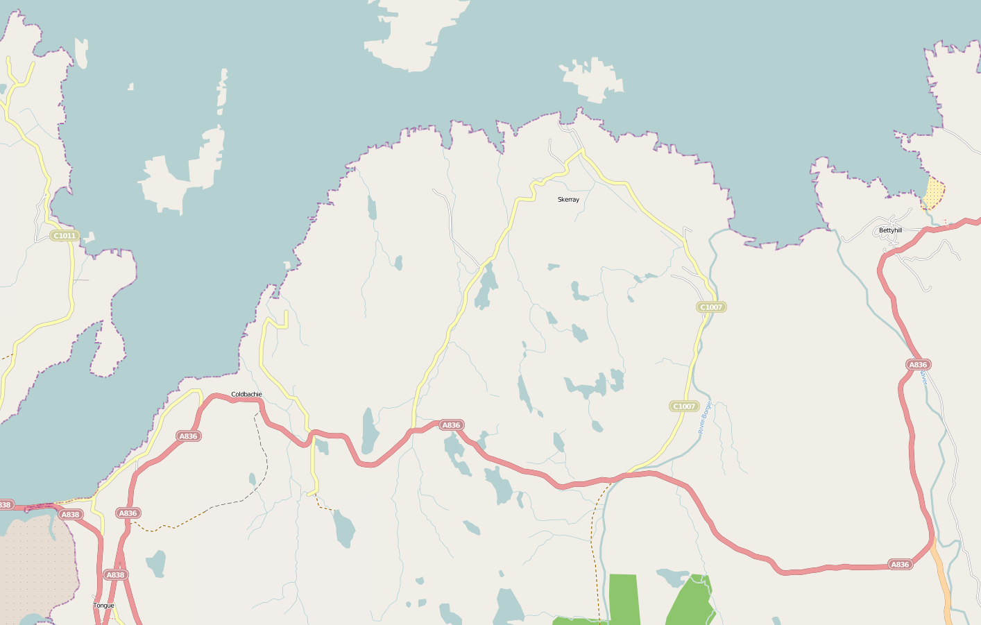 Location map of Skerray area, Sutherland, Scotland